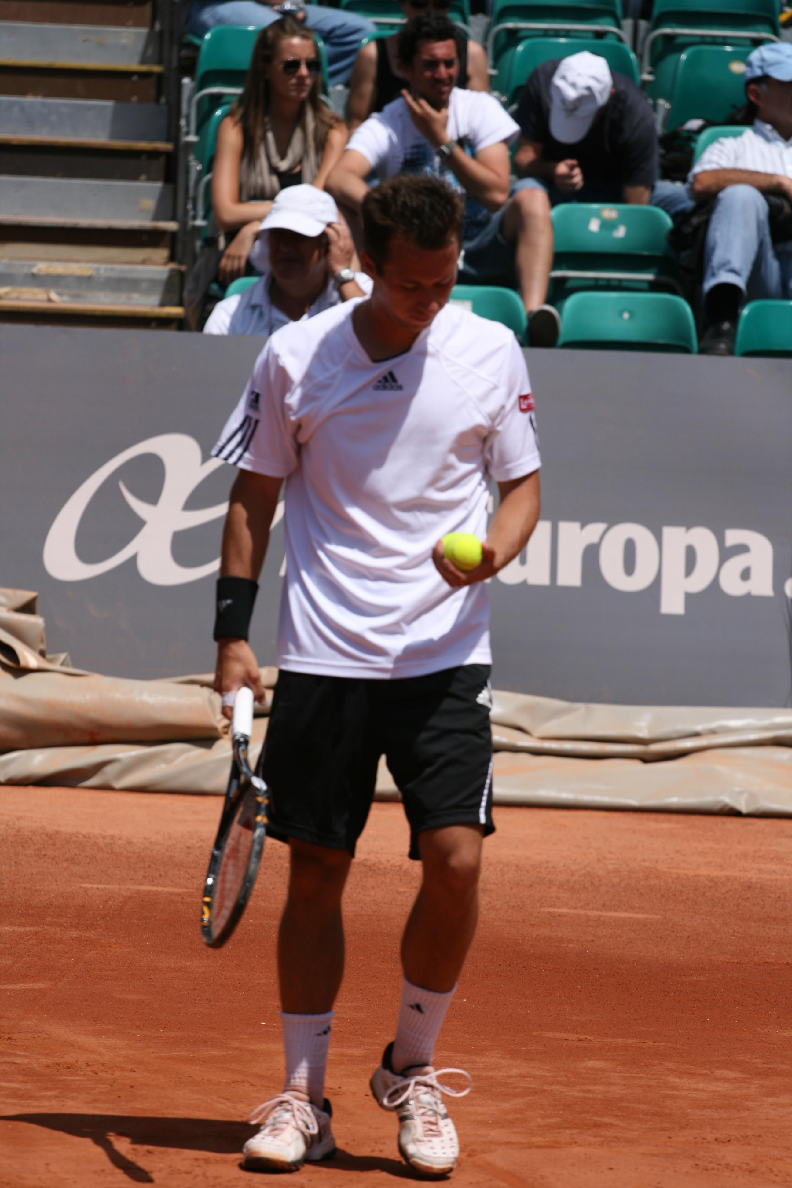 Philipp Kohlschreiber against Marin Čilić in the 2009 Mutua Madrileña Madrid Open second round